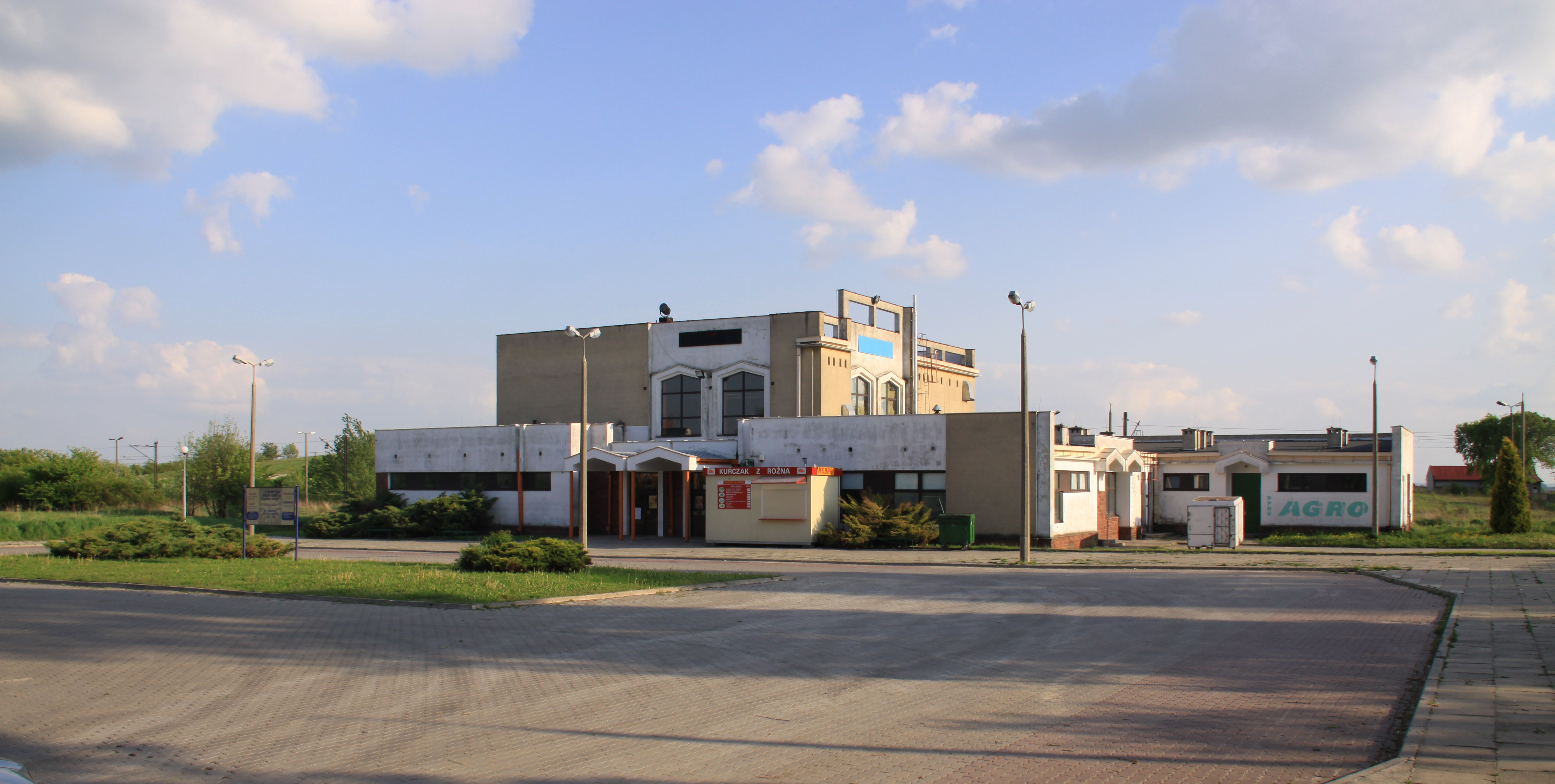 Siesławice: Train Station Busko-Zdrój